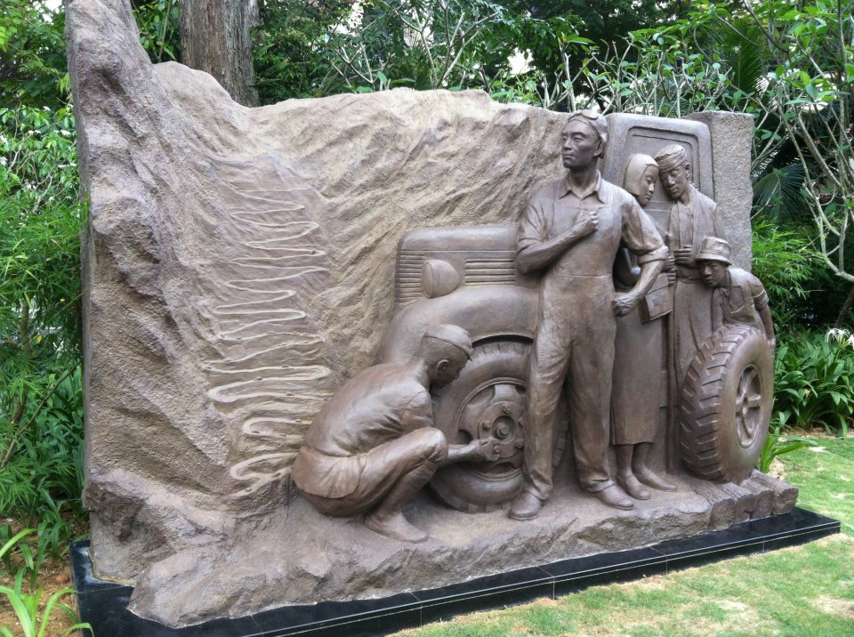 Located in Sun Yat Sen Nanyang Memorial Hall at Tai Gin Road, Singapore. In memory of the Nanyang Volunteers who returned to China to support her war efforts against the Japanese invasion.